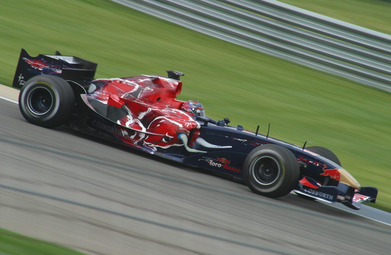 Scott Speed driving for Scuderia Toro Rosso at the 2006 United States Grand Prix.